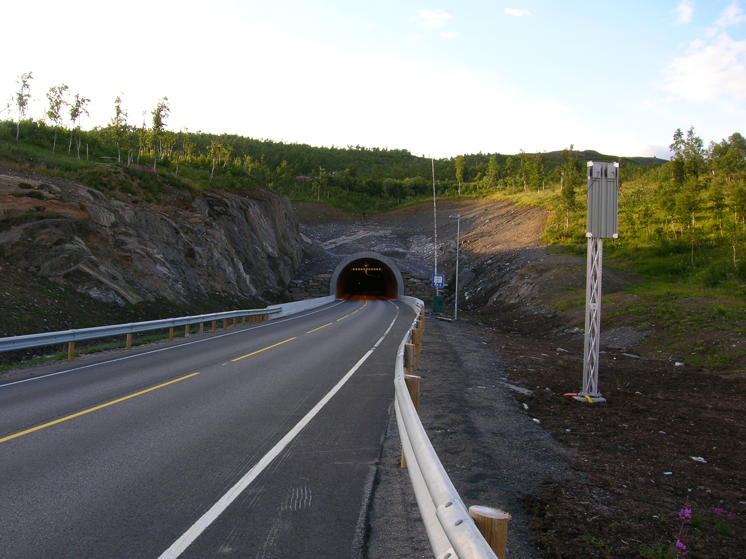 The tunnel of Umskaret, seen from the south. Rana municipality, county of Nordland, Norway, Photo 11 August, 2007 with a Nikon Coolpix 5600 5,1 Megapixel camera.